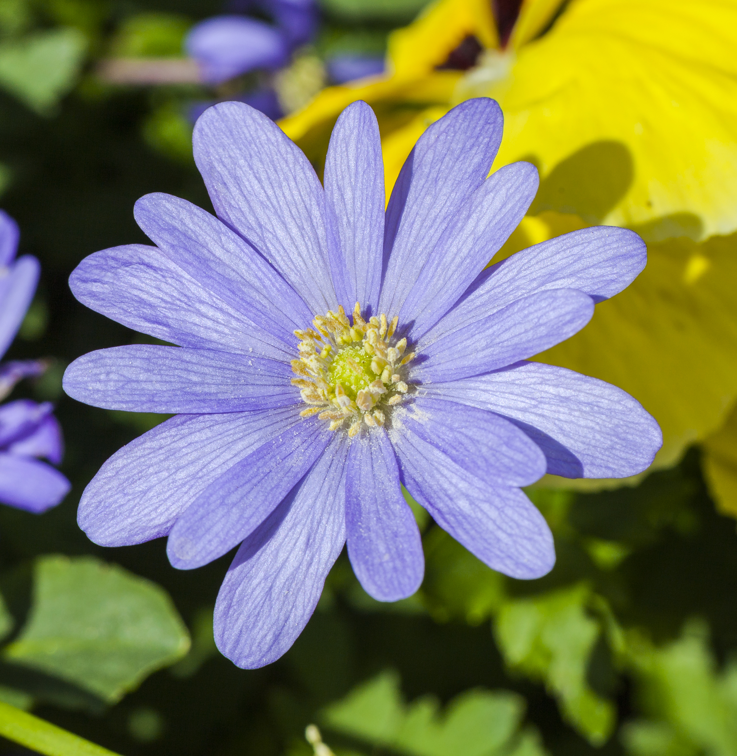 Anemone blanda, Munich Botanical Garden, Germany